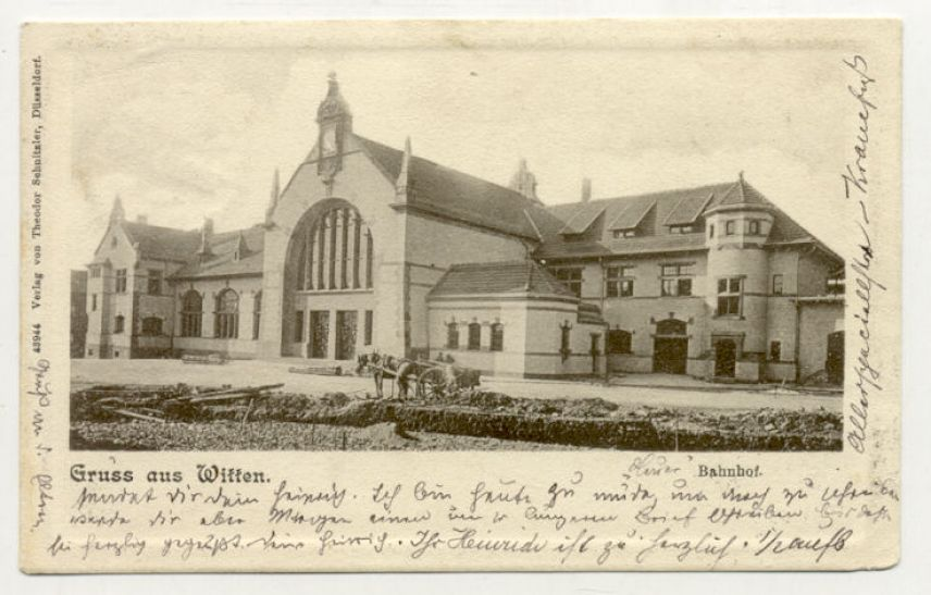 Witten Hauptbahnhof